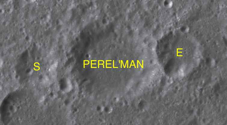 Part of the chart LAC-100 used for the presentation